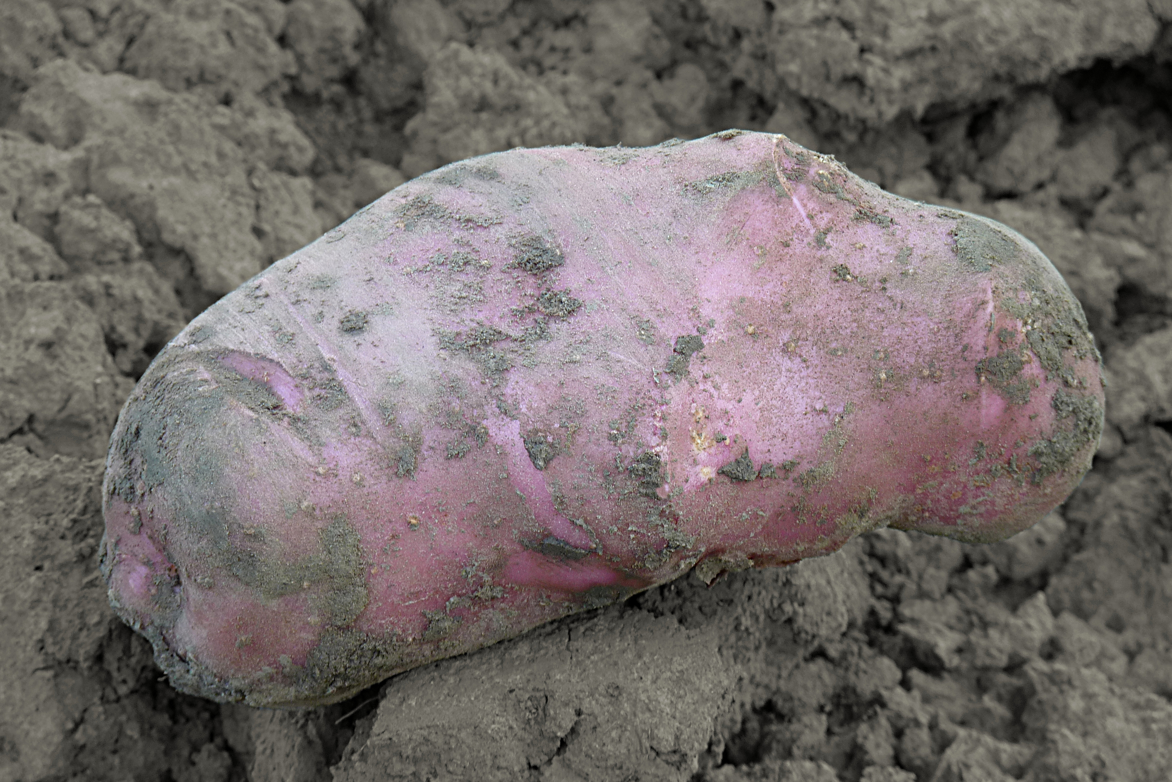 Potato 'Désirée', in a vegetable garden in Belgium.